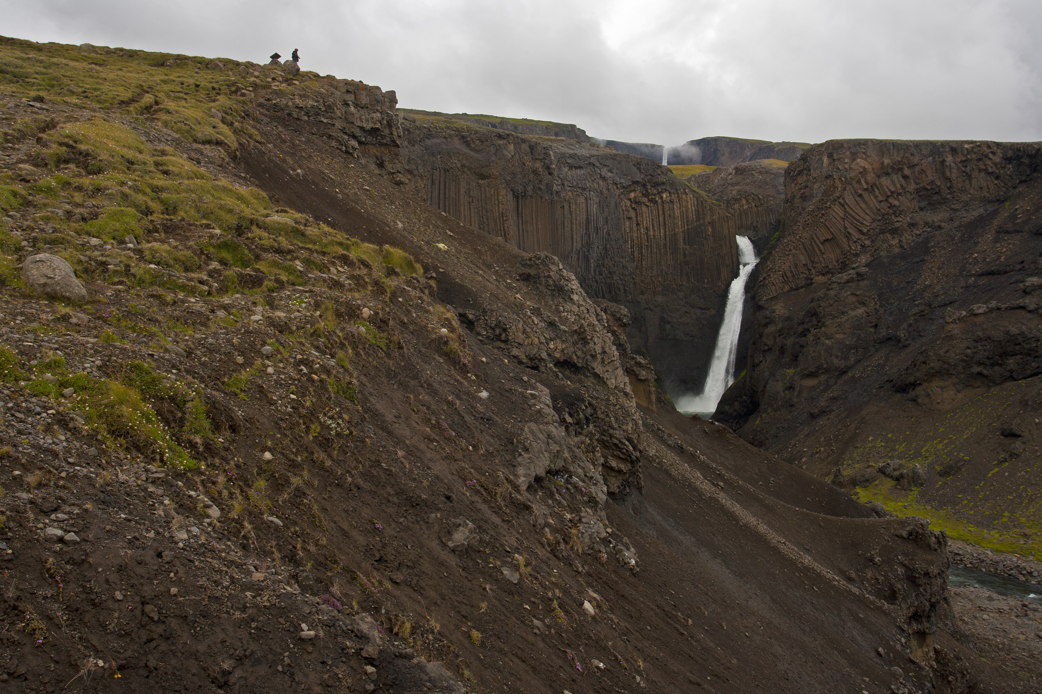 Litlanessfoss